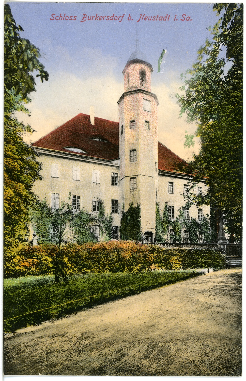 This postcard is from publisher Brück & Sohn in Meißen ( This postcard has a unique number 17339 and is available in a higher resolution at the publisher. This images was uploaded in a cooperation project between Wikipedians and the publisher.